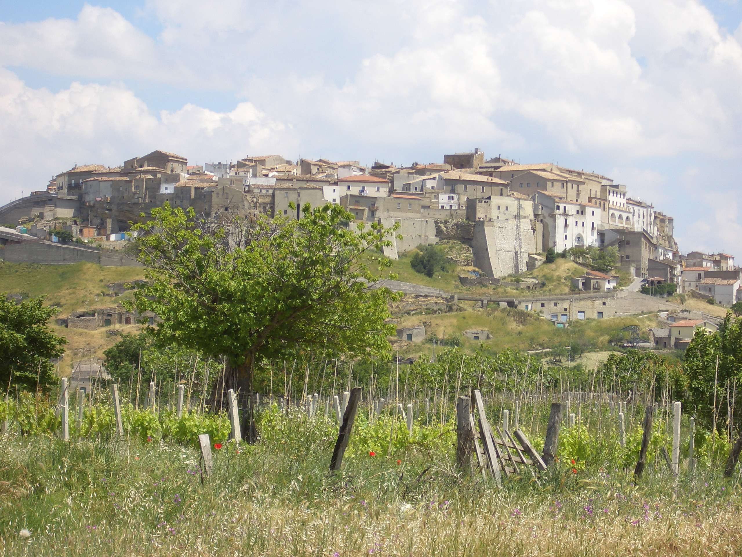 The walled city of Acerenza, ancient Acherontia, duchy of the Princes of Belmonte, in the region of Basilicata. It is located in the province of Potenza, Italy.